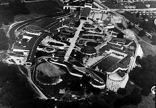 Wildcat History